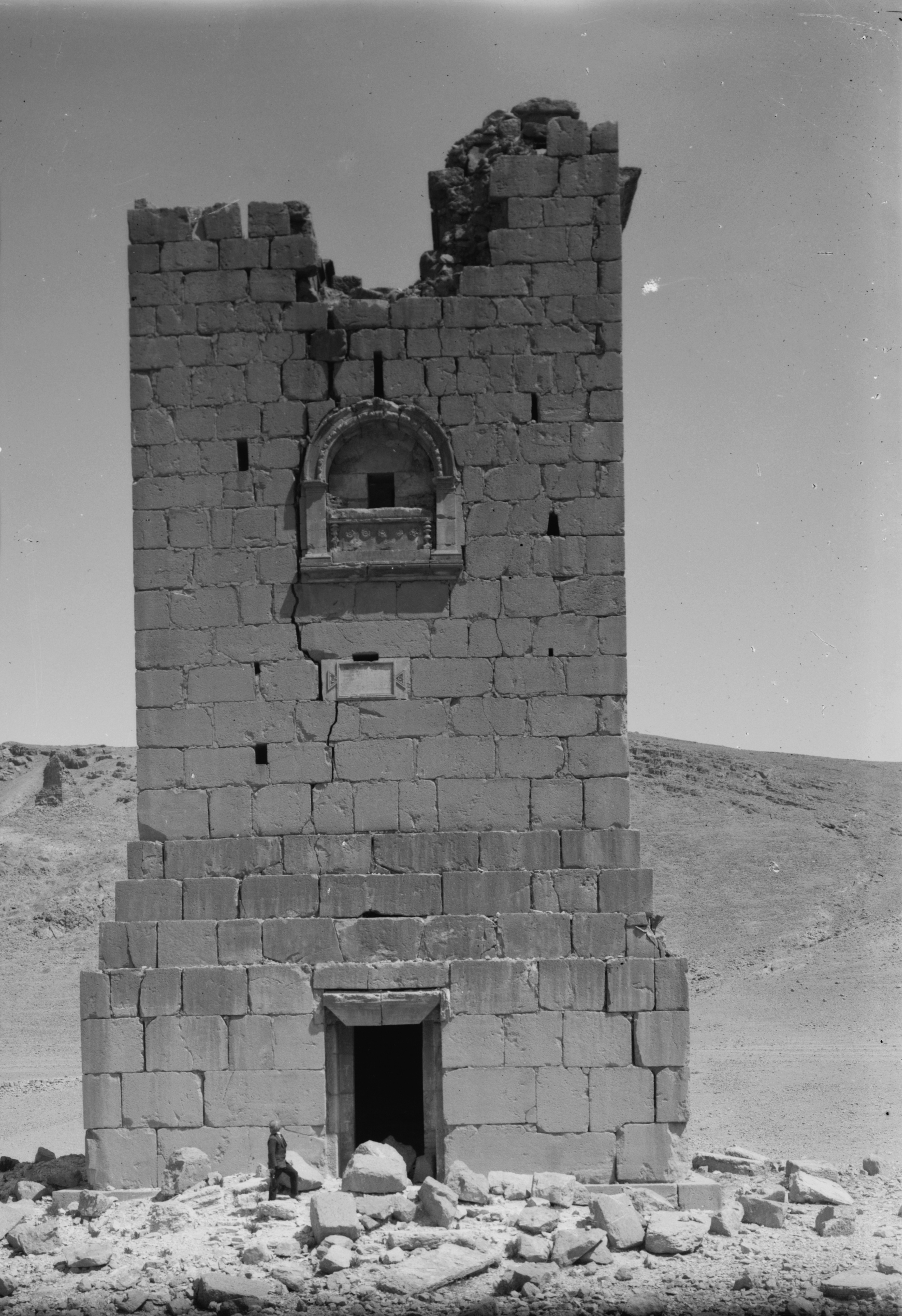 Palmyra. Entrance to the tower tomb of Elahbel